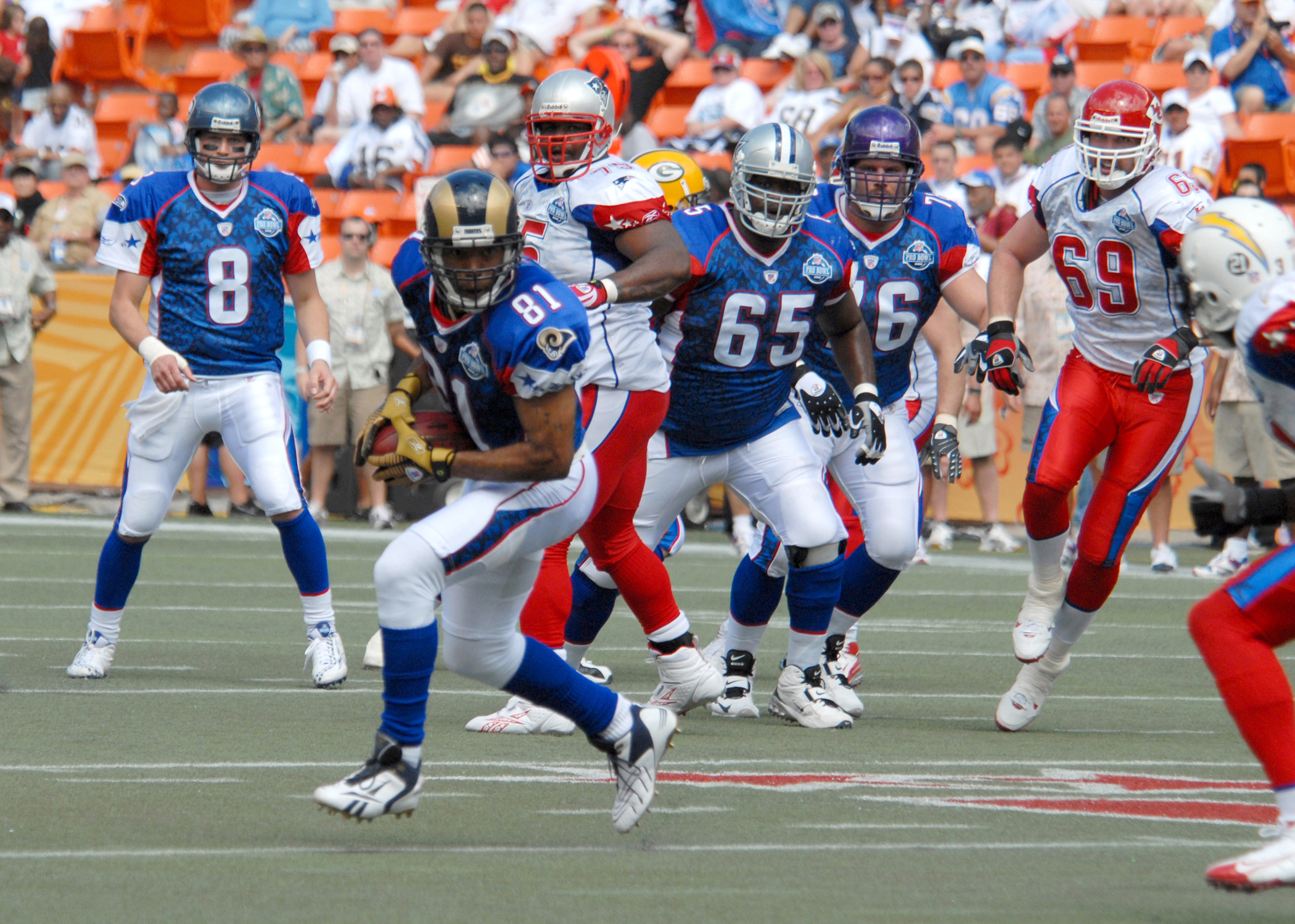 St. Louis Rams wide receiver Tory Holt (#81), playing for the NFC, makes his way downfield after catching a pass from Seattle Seahawks quarterback Matt Hasselbeck during the 2008 Pro Bowl game at Aloha Stadium. The NFC defeated the AFC 42 to 30.